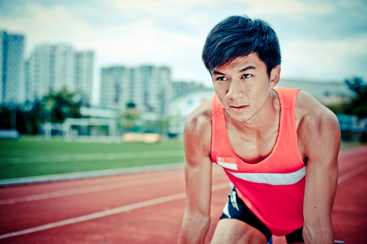 Photograph of Calvin Kang, National Sprinter of Singapore